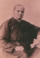 Jose Maria Vilaseca i Aguilera (Igualada, 1831 - Mexico 1910) , founder of the josefinos in Mexico.